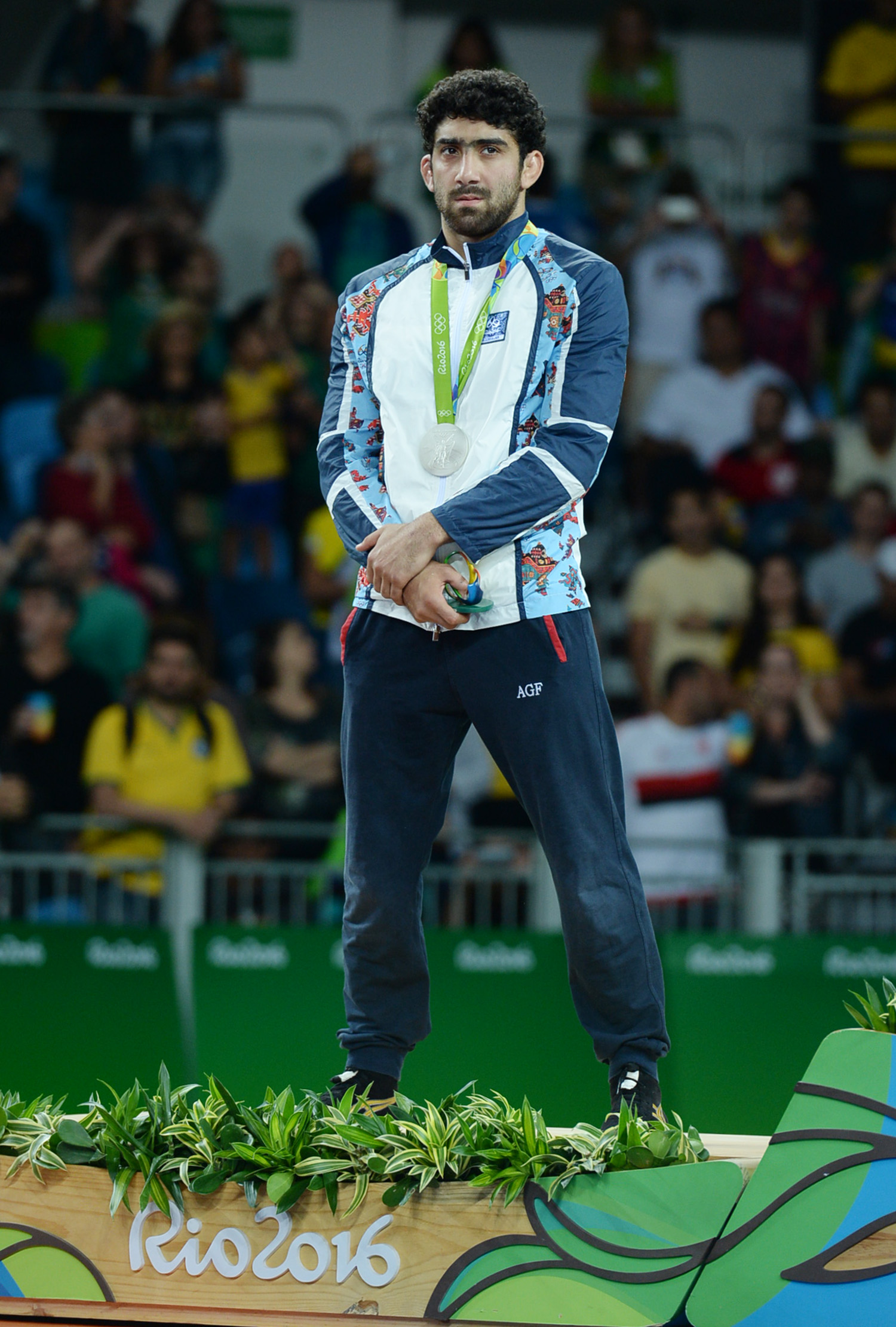 Toghrul Asgarov at the 2016 Summer Olympics awarding ceremony